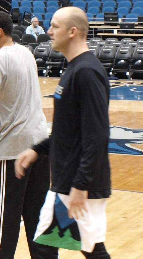 Brian Cardinal before a Minnesota Timberwolves game